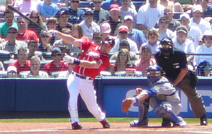 User:Chrisjnelson agreed to license this image of Mark_Teixeira.jpg under a free attribution license. Any use of this image must be attributed; this means that Photo by :en:User:Chrisjnelson|Chris Nelson should be in the picture caption. 00:12, 21 April 2008 . . Chrisjnelson . . 424×268 (171 KB)